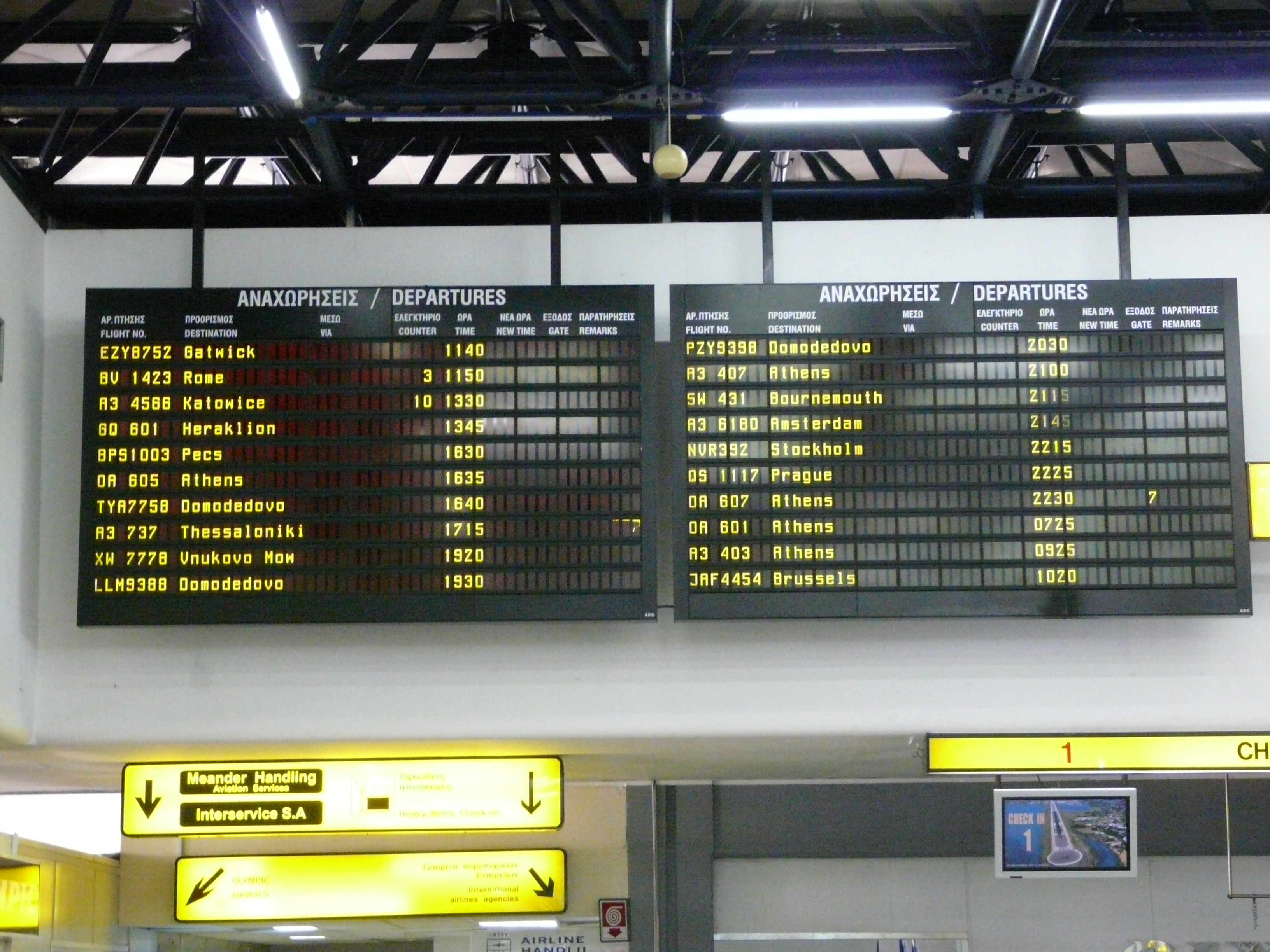 Corfu International Airport